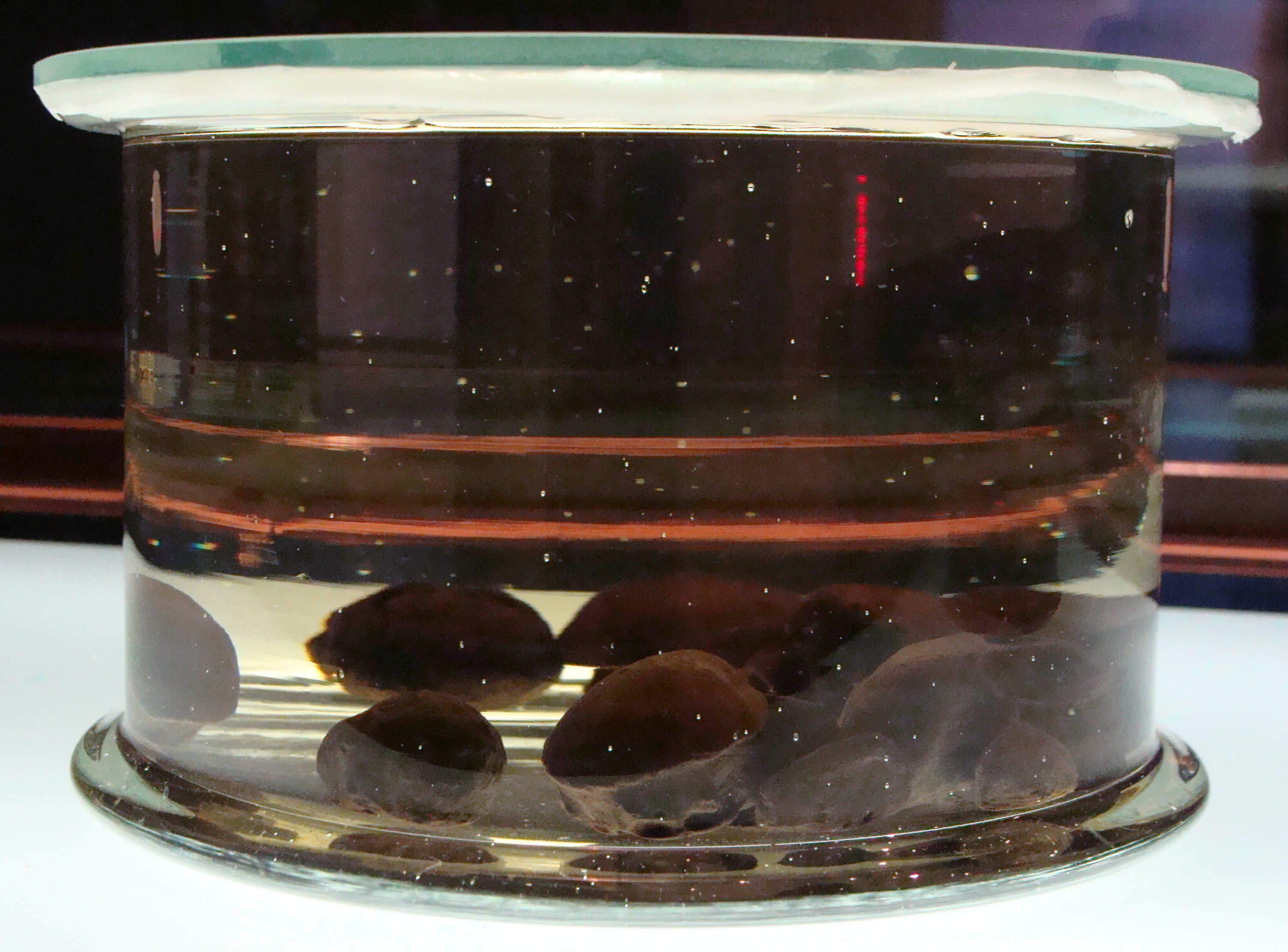 Seeds from the Tambalacoque (Sideroxylon grandiflorum; formerly Calvaria major), also called the Dodo Tree, is a long-lived tree in the family Sapotaceae, endemic to Mauritius. The jar with seeds is/was on display at a Dodo Expedition exhibition at the National Museum of Natural History 'Naturalis' in Leiden, the Netherlands.